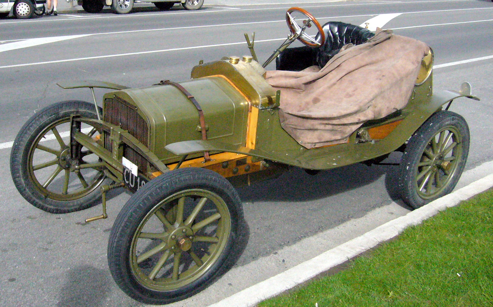 1907 single cylinder Sizaire & Naudin in daily use